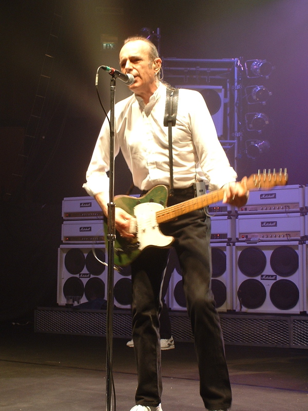 Francis Rossi on stage with Quo at the Colston Hall in Bristol